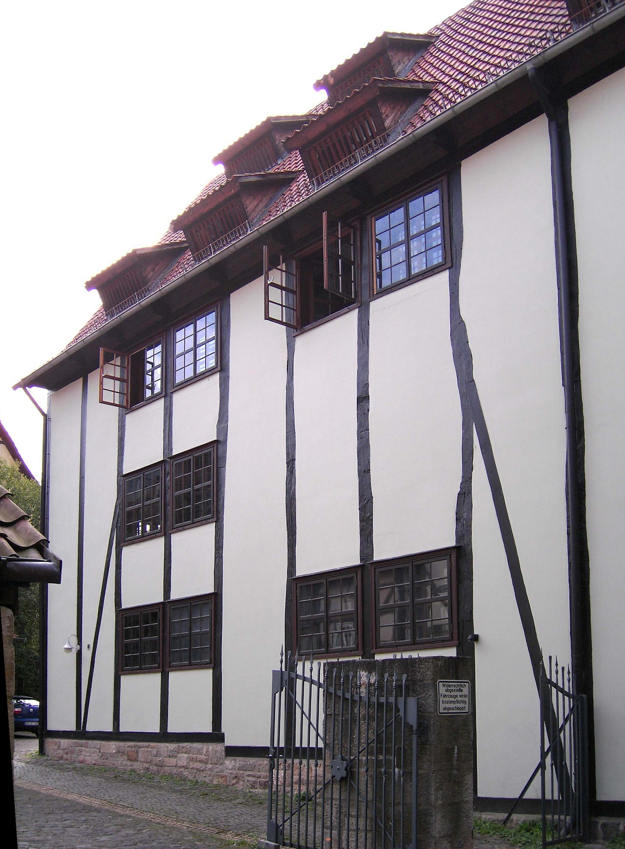 Hann. Münden, Sydekumstr. 8, Haus Ochsenkopf, Germany. Timber framed house and related ornaments.